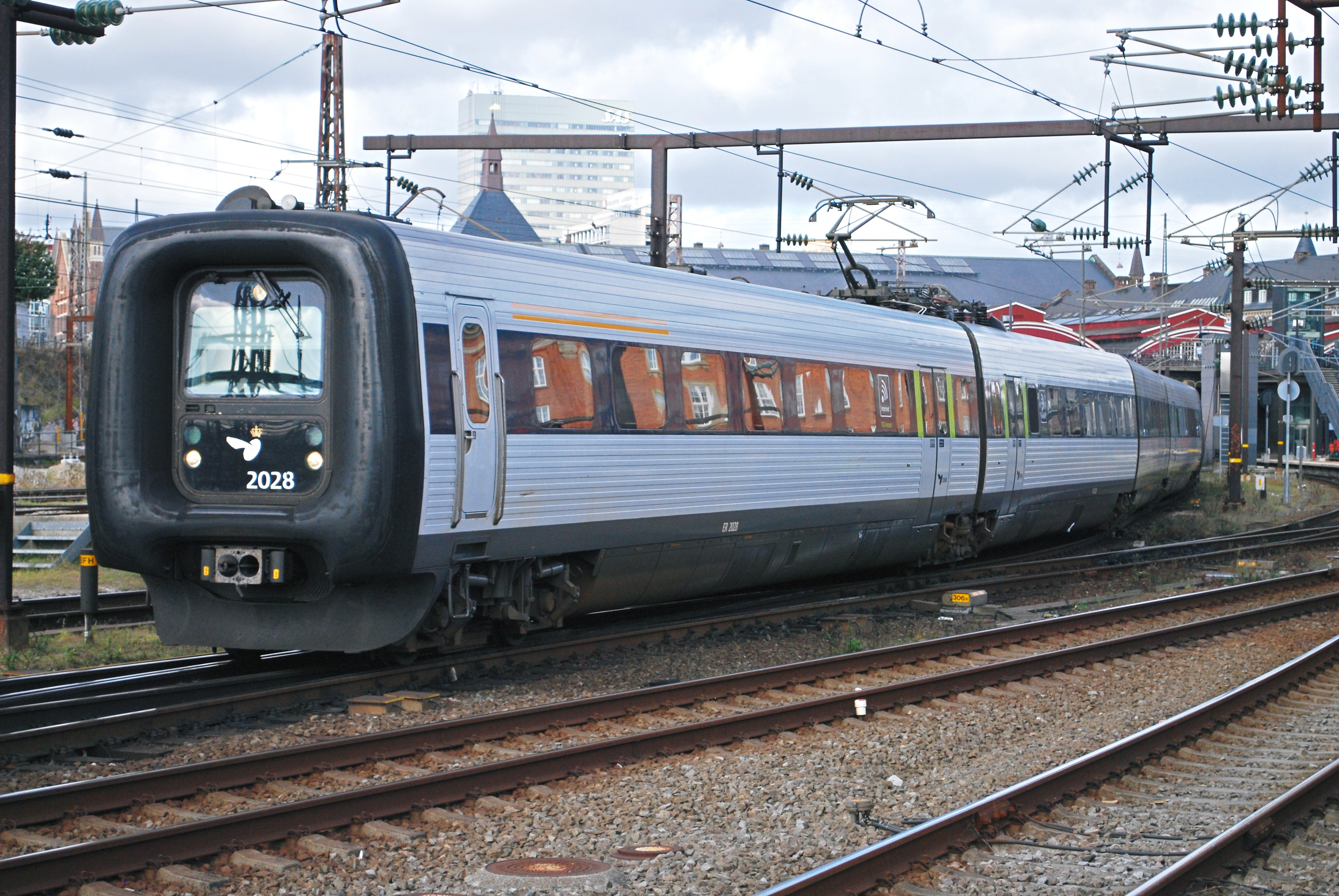 DSB ABB/Scandia IR4 1.5 kV AC Regional 4-car dmu No.2028 leaving Kobenhavn, 9/10. Derived from the IC3 DMUs, the "Oresund" dual voltage EMUs were in turn derived from the IR4s.